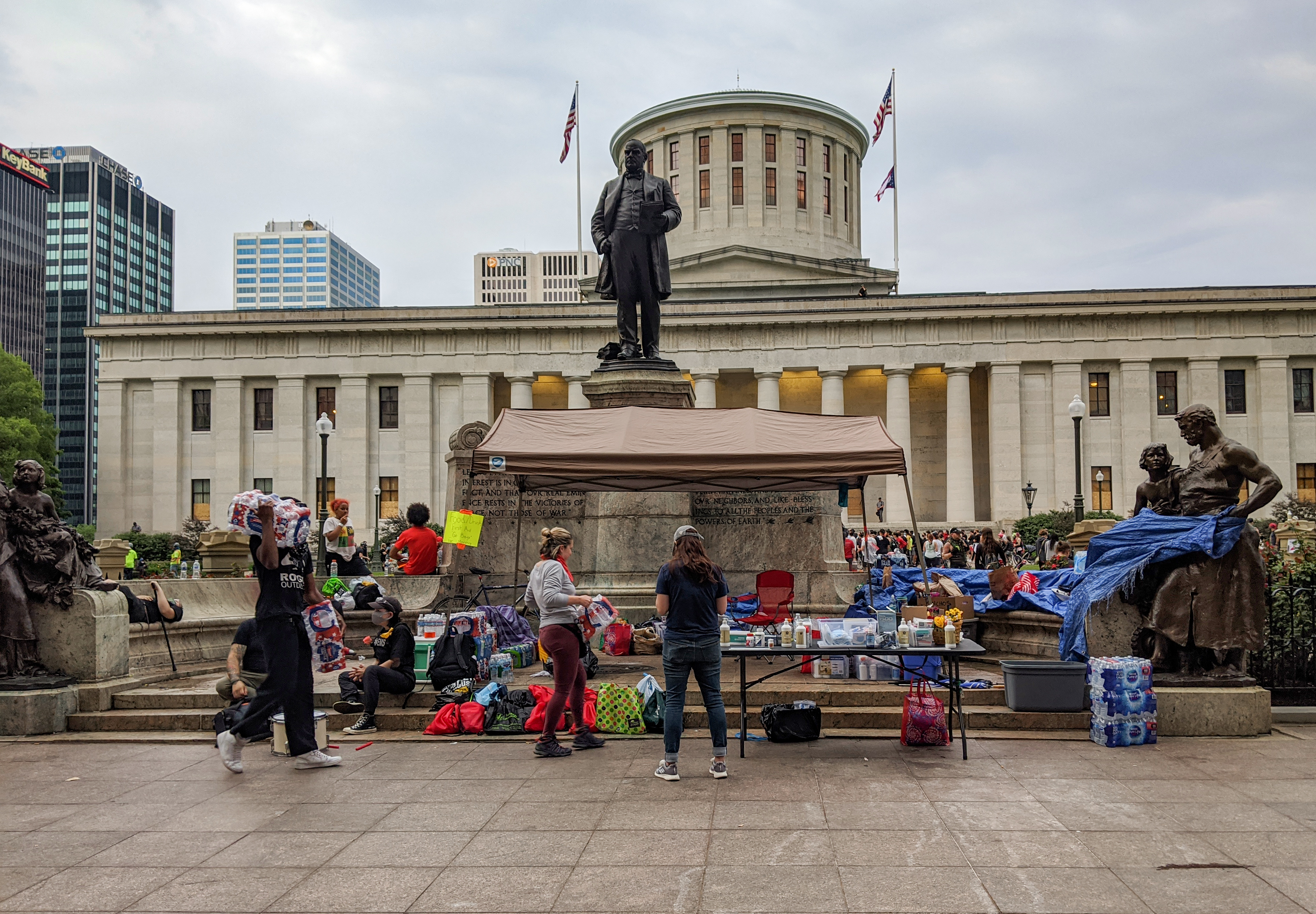 Columbus 2020-06-04 protests.